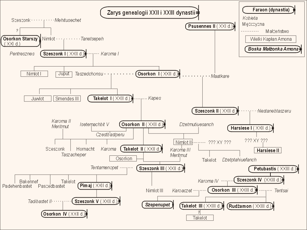 Genealogy of 22nd dynasty of Egypt - 1024x768